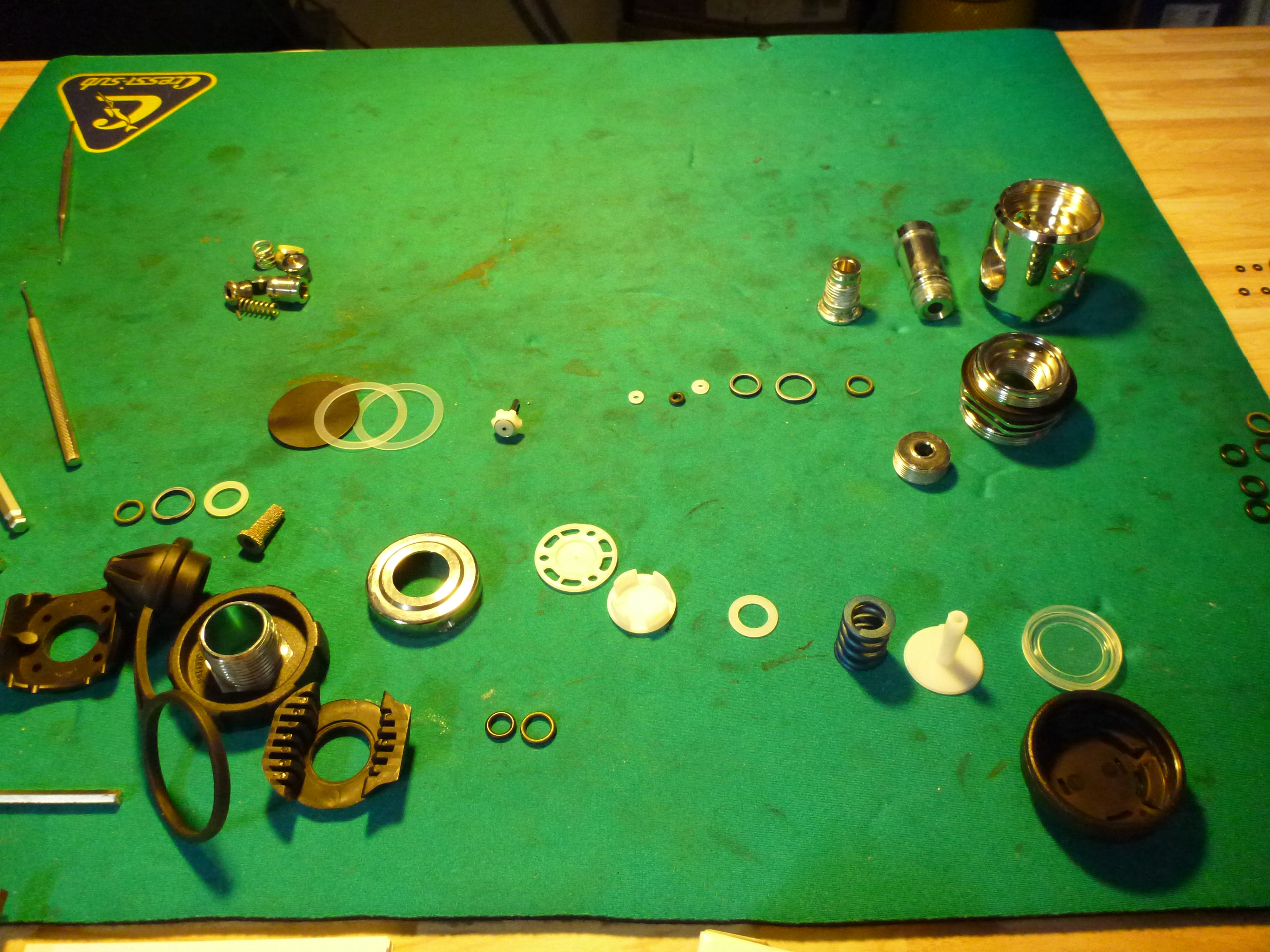 First stage of a scuba diving regulator completely dissassembled